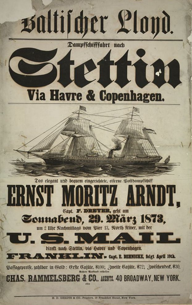 Advertising Poster for the New York City-Szczecin Passages of Ernst Moritz Arndt of March 29, 1873 and Franklin on April 19, 1873